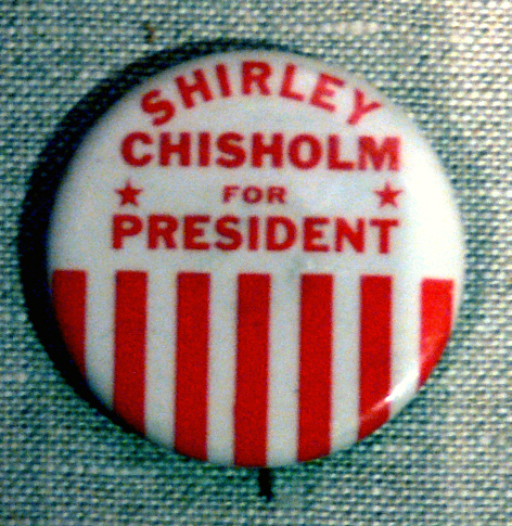 Pin button Shirley Chisholm for President The Women's Museum, Dallas, Texas